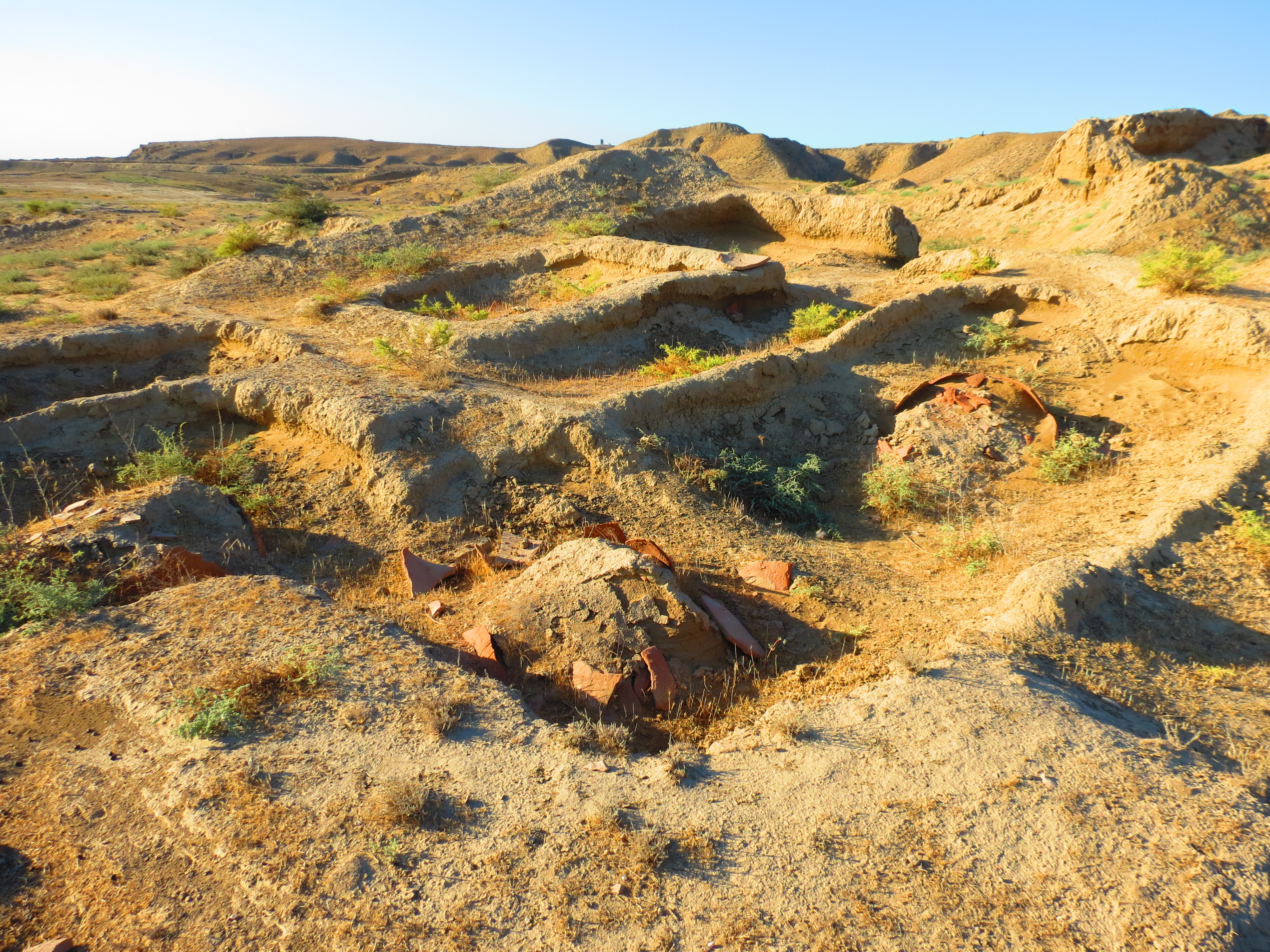 Mughan Babazanly archaeological site